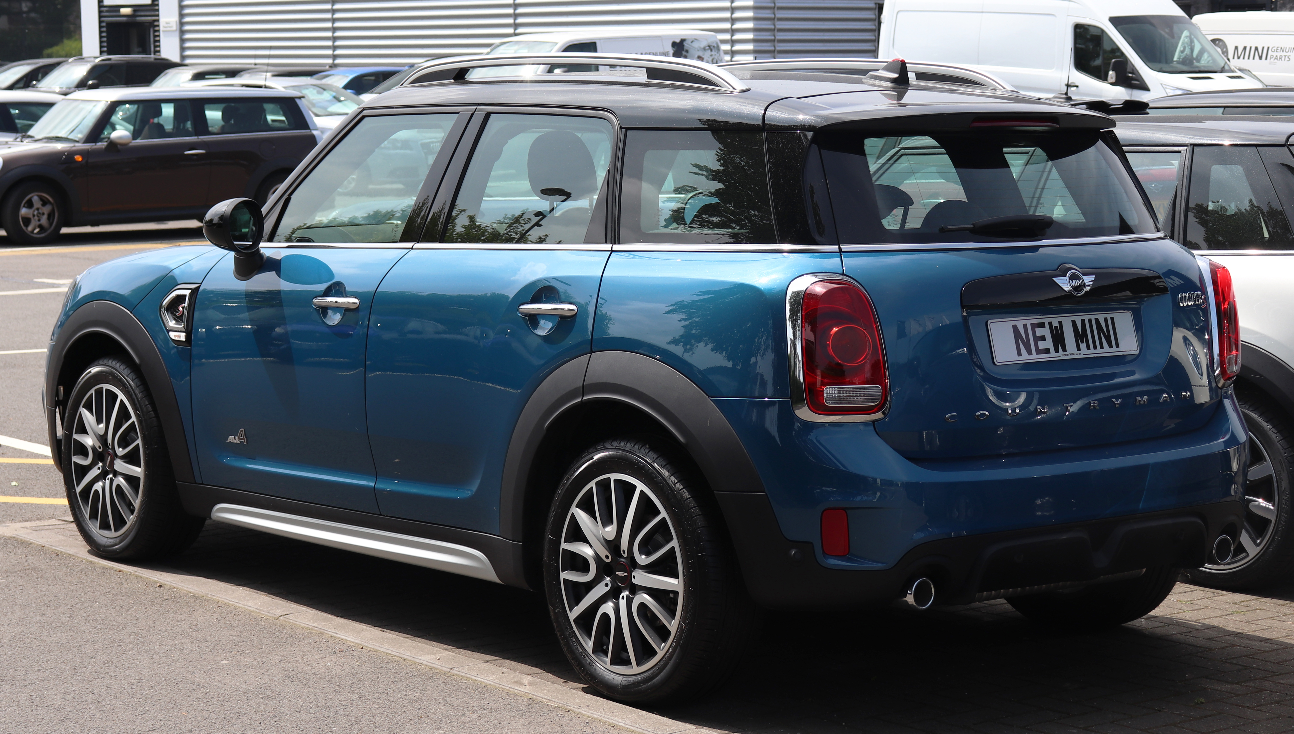 2018 Mini Cooper Countryman S Rear Taken in Solihull